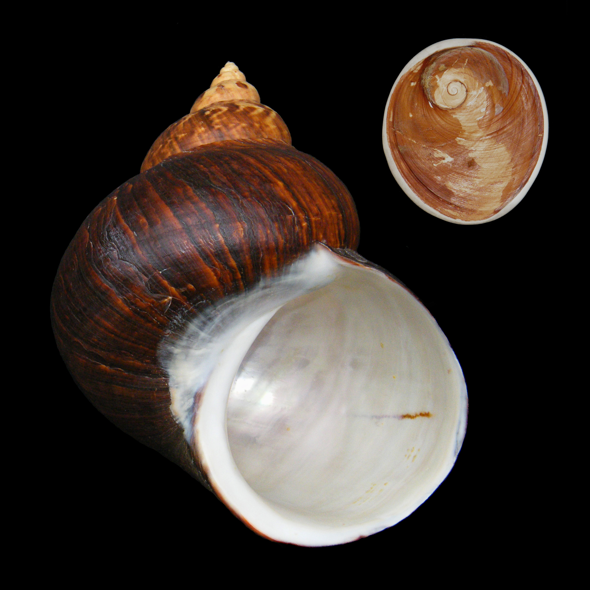 Turbo jourdani Kiener, 1839. S & W Australia. With operculum.